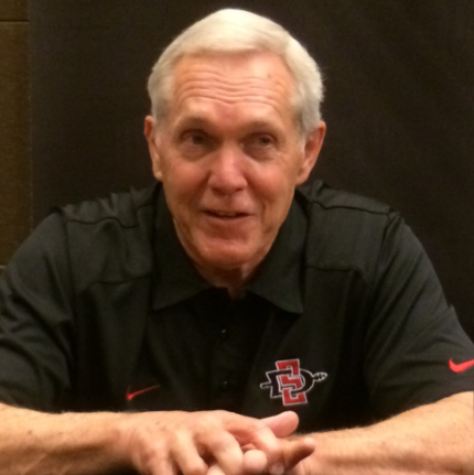 Rocky Long, head coach of the San Diego State Aztecs football team, at the 2016 Mountain West Conference Media Days in the The Cosmopolitan in Las Vegas.